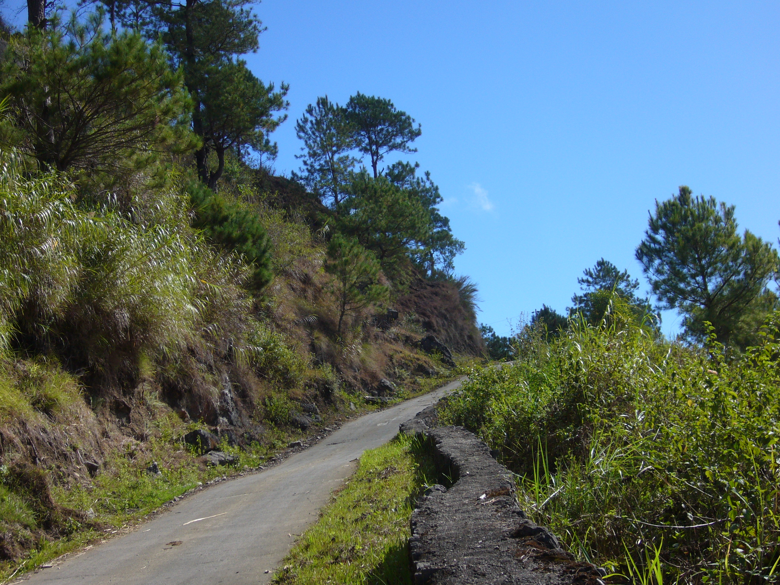 Near Bontoc, Mountain Province